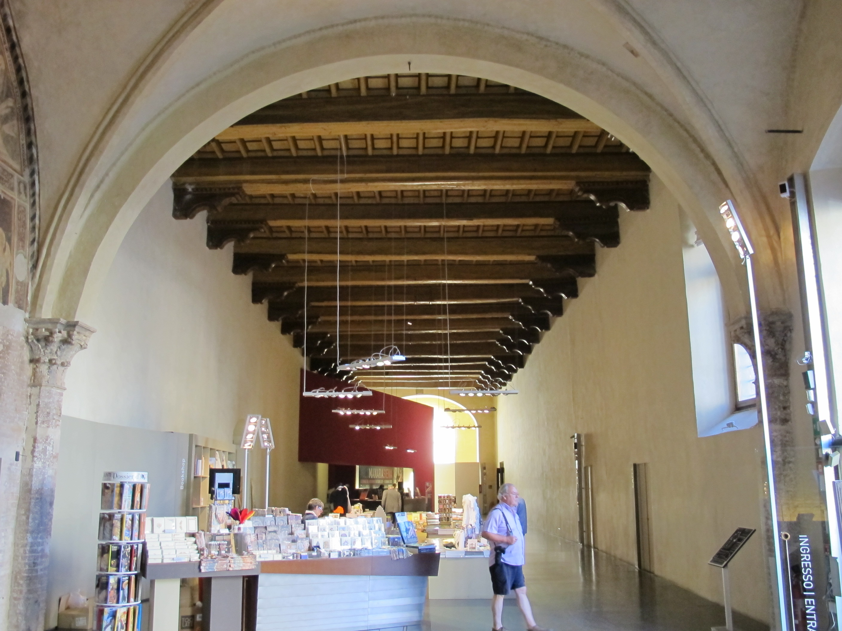 Santa Maria della Scala Hospital (Siena)